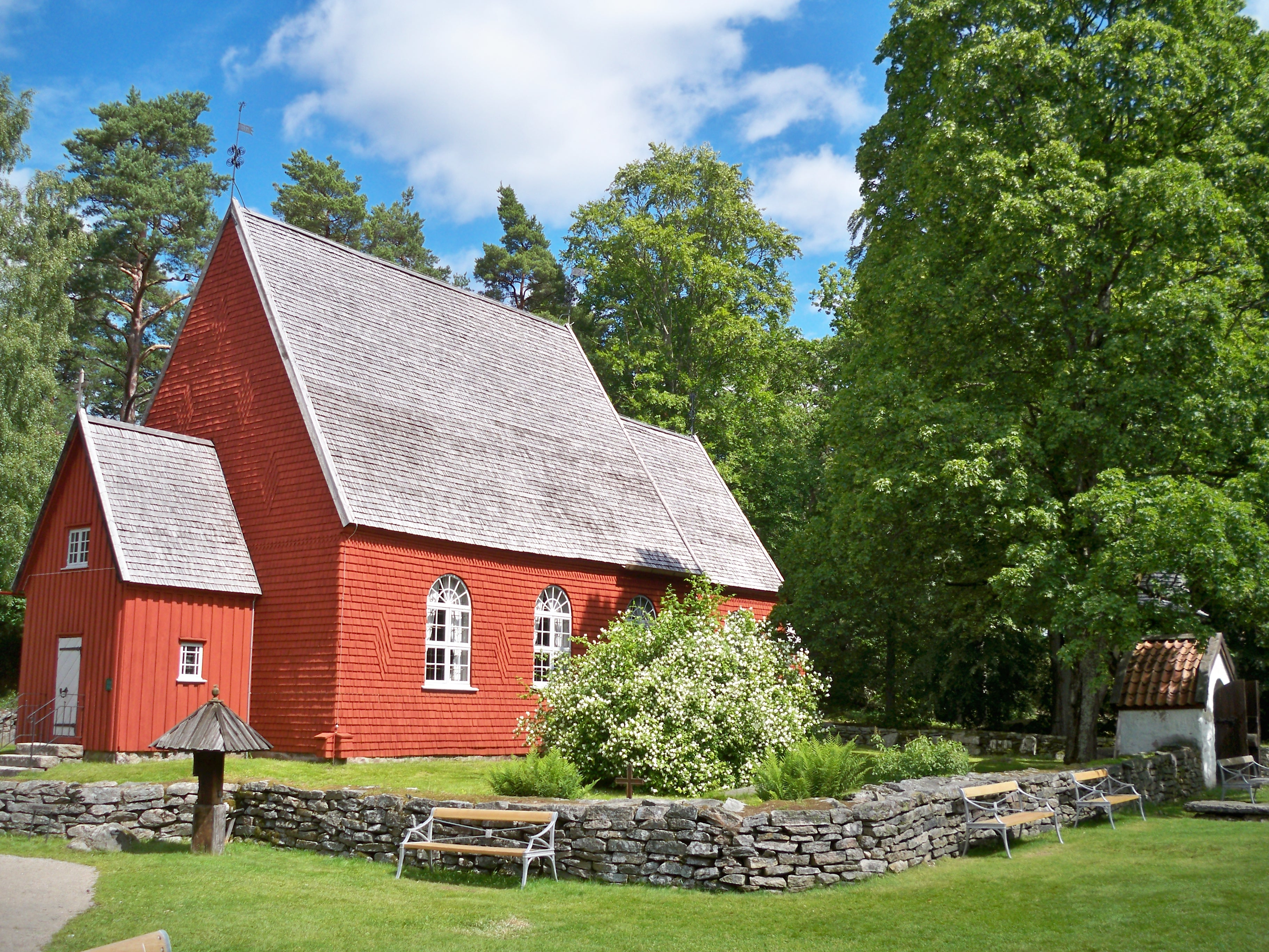 Built in the late 17th century, this wooden church was used in the parish of Kinnarumma until 1907 and moved from there in 1914 to the open air museum collection of historical buildings in Ramnaparken, Borås, Sweden. In 1930 the church was re-inaugurated for services, baptisms, and weddings.